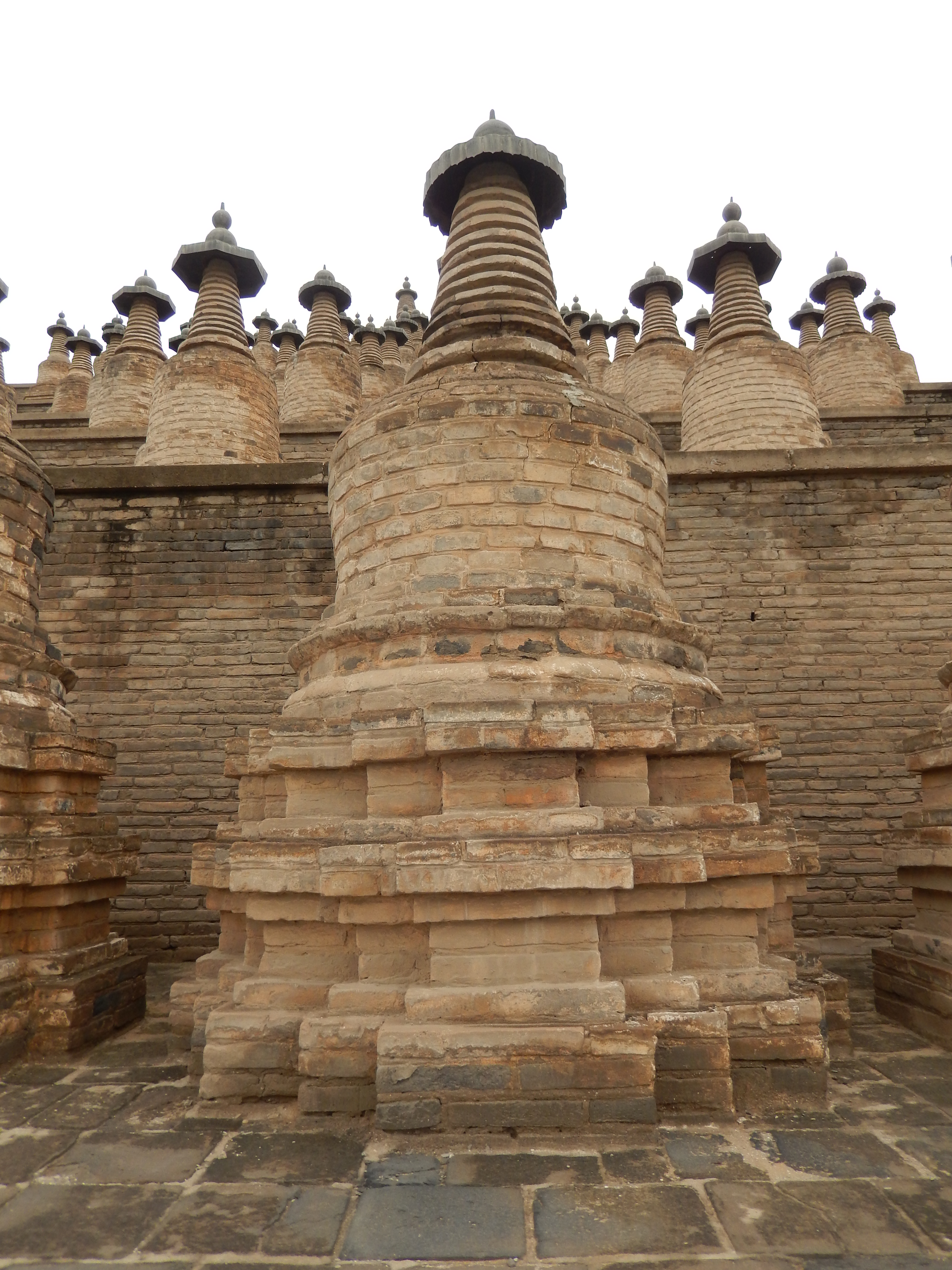 One of the 108 Buddhist stupas at Qingtongxia, Ningxia, China.